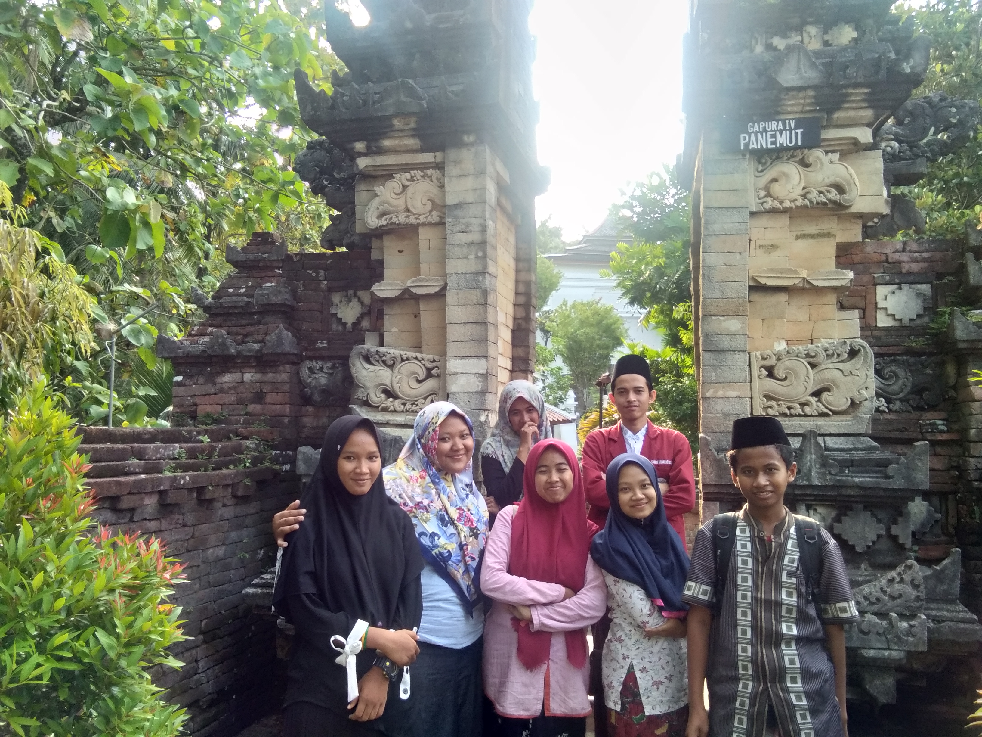 The tomb of Sunan Pandanaran is one of the religious tours or tomb pilgrimages located in the Klaten district area. Its existence is quite well known by pilgrims because in its history was the guardian of the spread of Islam in the land of Java during the era of the Demak Kingdom and students of Sunan Kalijaga. The Tomb of Sunan Pandanaran complex occupies a hill with a public tomb on the bottom to the steps then the main tomb complex is at the top of the hill.